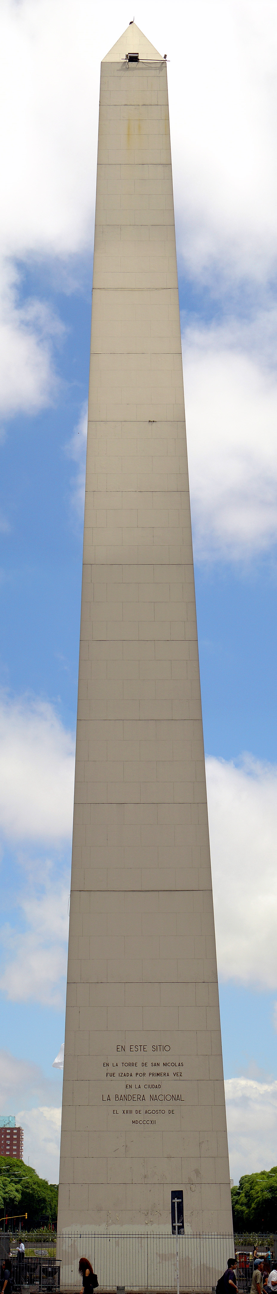 Please, have this description accessible to all by translating it in different languages.